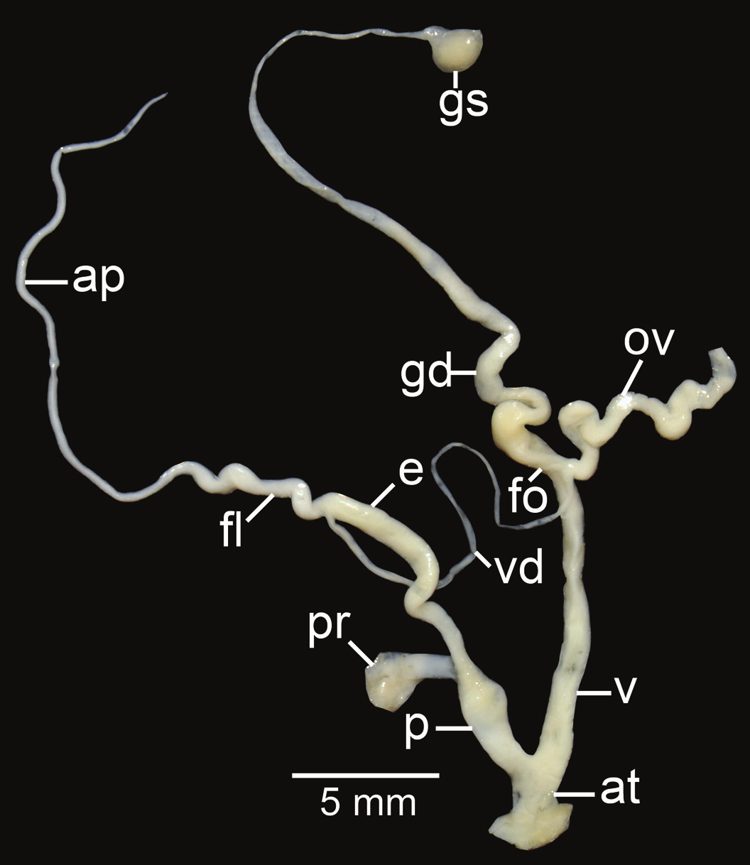 Photo of a reproductive system of Amphidromus syndromoideus, holotype, (CUMZ 7019). Scale bar is 5 mm.